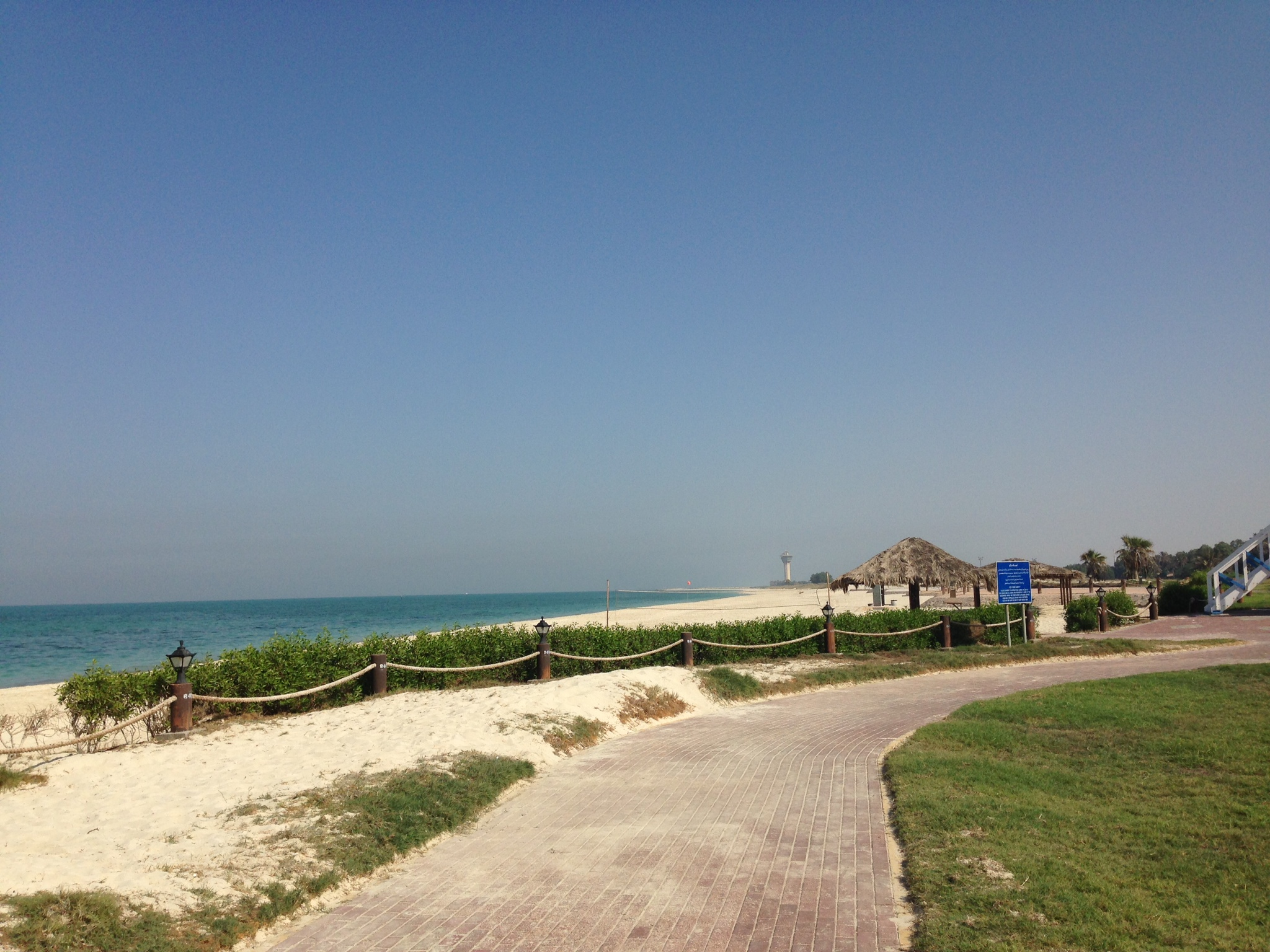 Ras Tanura beach